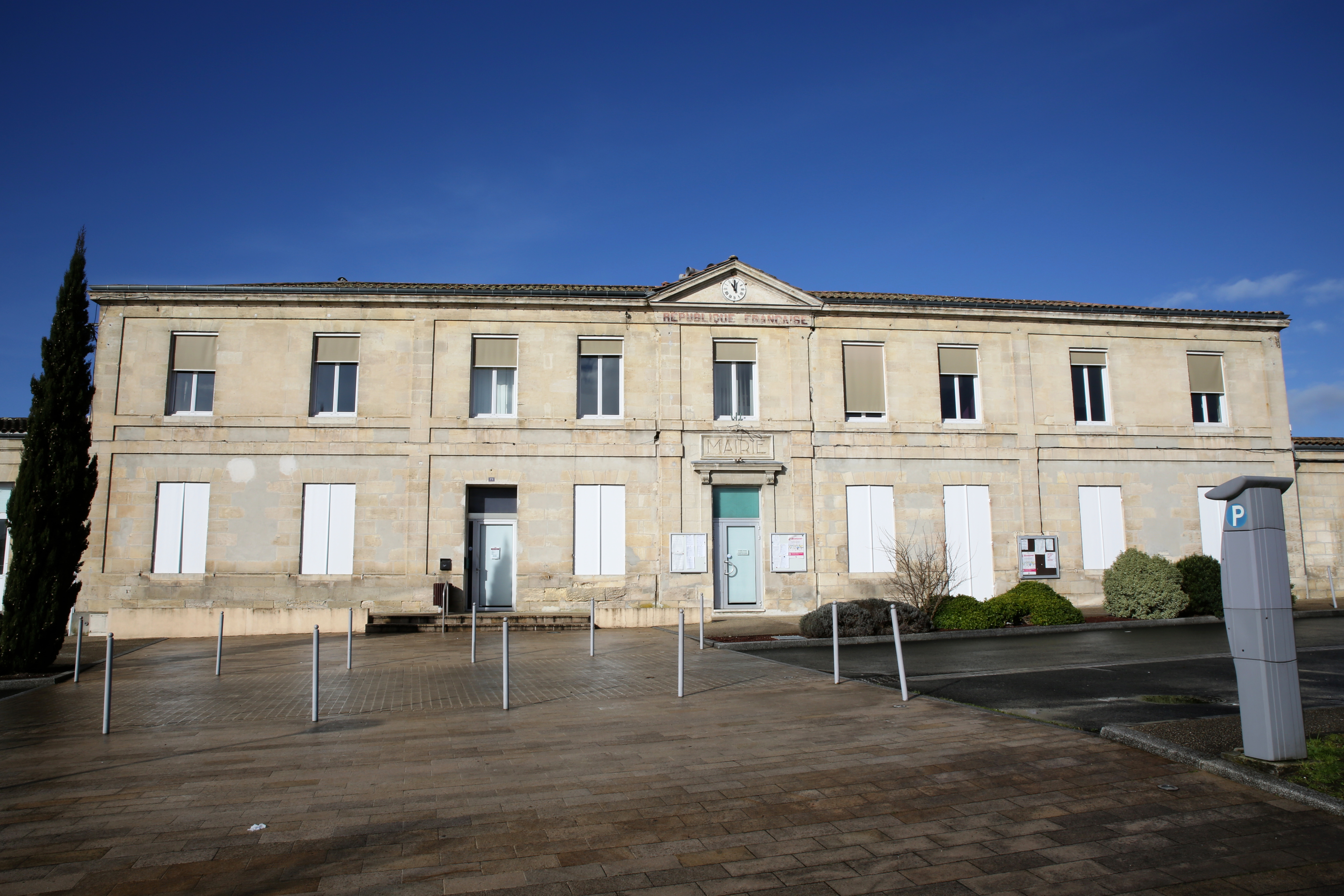 Mairie